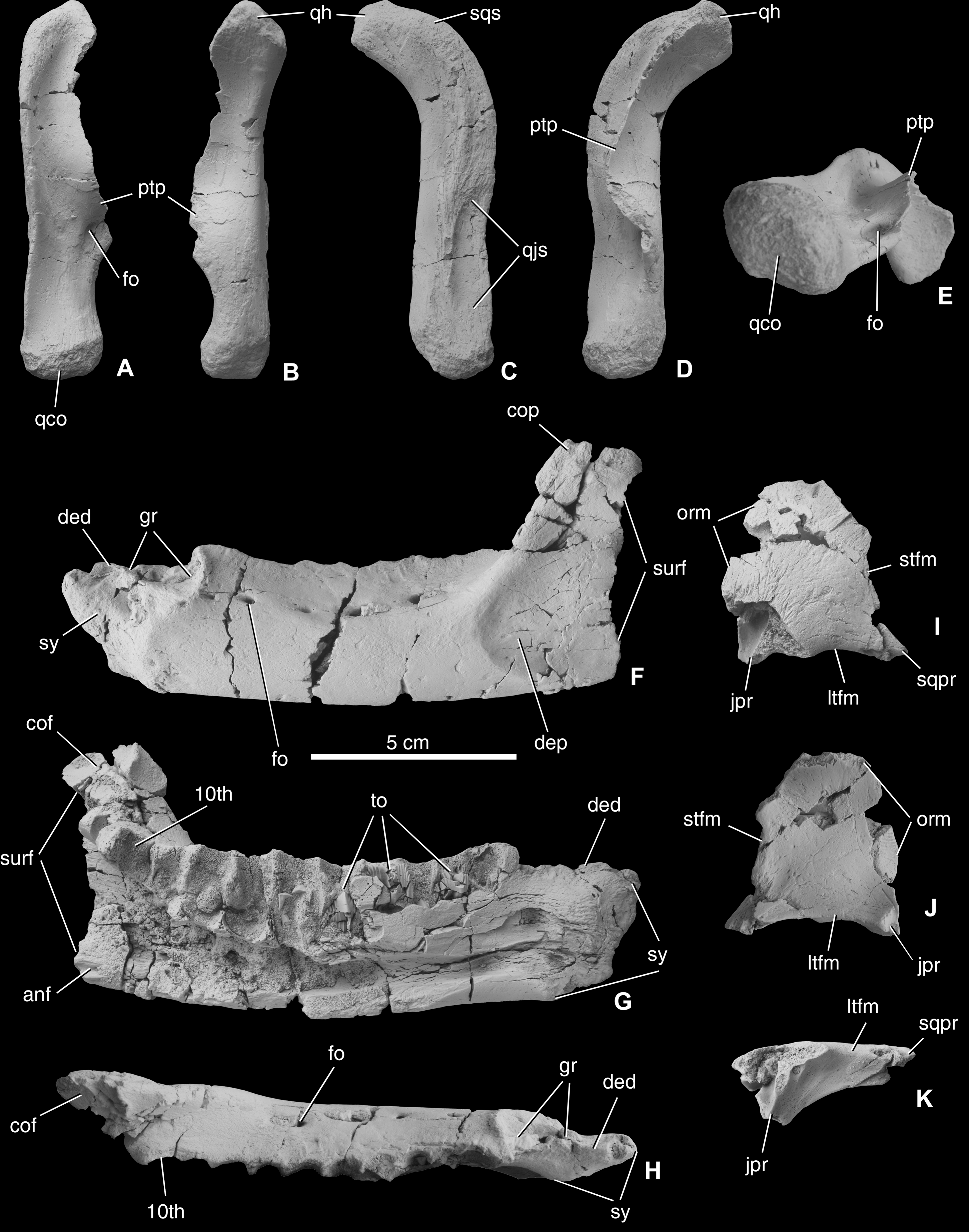 Cranial remains of Mochlodon vorosi n. sp. from the Upper Cretaceous Csehbánya Formation, Iharkút, western Hungary. A, right quadrate (MTM V 2010.111.1) in cranial, B, caudal, C, lateral, D, medial, E, distal views; F, left dentale (MTM V 2010.105.1) in lateral, G, medial, H, occlusal views; I, left postorbital (MTM 2012.14.1) in dorsal, J, ventral, K, lateral views. Anatomical abbreviations: anf, articular surface for angular; cof, articular surface for coronoid; cop, coronoid process; ded, dorsal edg of the dentary; dep, depression; fo, foramen; gr, groove; jpr, jugal process; ltfm, margin of lateral temporal fenestra; orm, orbital rim; ptp, pterygoid process; qco, quadrate condyles; qh, quadrate head; qjs, articular surface for quadratojugal; sqpr, squamosal process; sqs, articular surface for squamosal; stfm, margin of supratemporal fenestra; surf, articular surface for surangular; sy, symphysis; to, tooth; 10th, 10th alveolus.